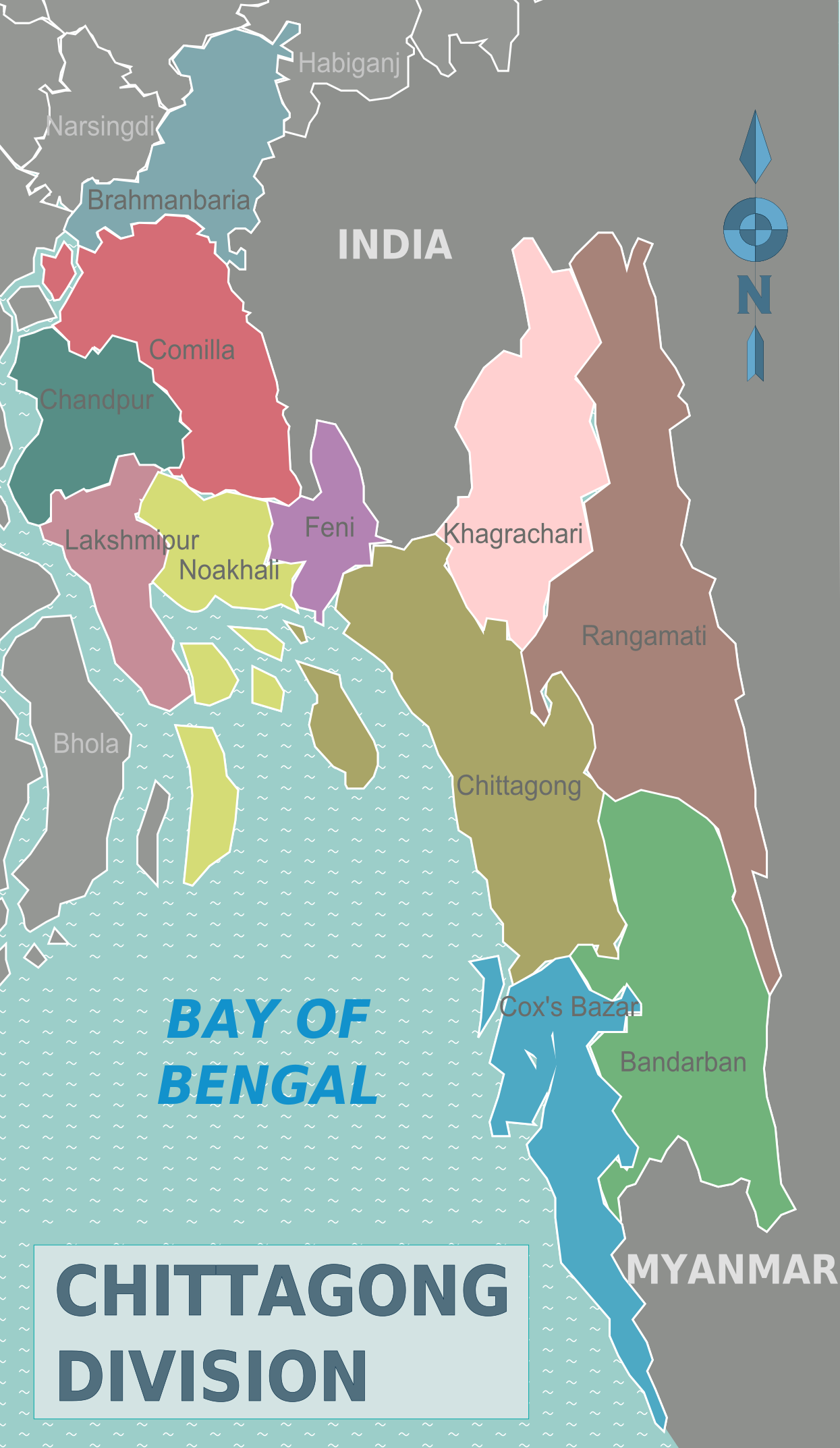 Colour-coded map of the districts of Chittagong Division in Bangladesh (Wikivoyage regional scheme), English version